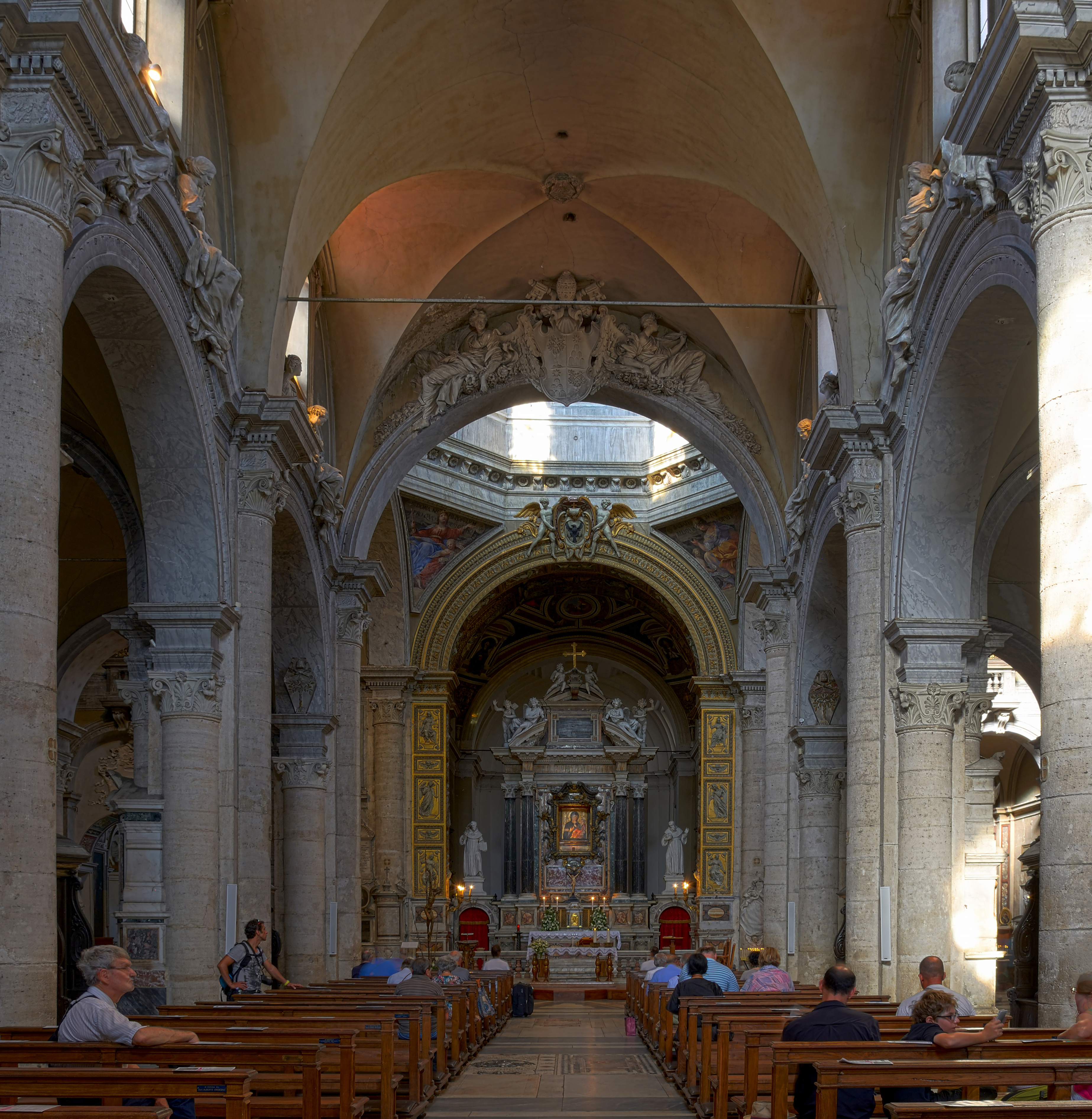 Santa Maria del Popolo (Rome) - Intern HDR